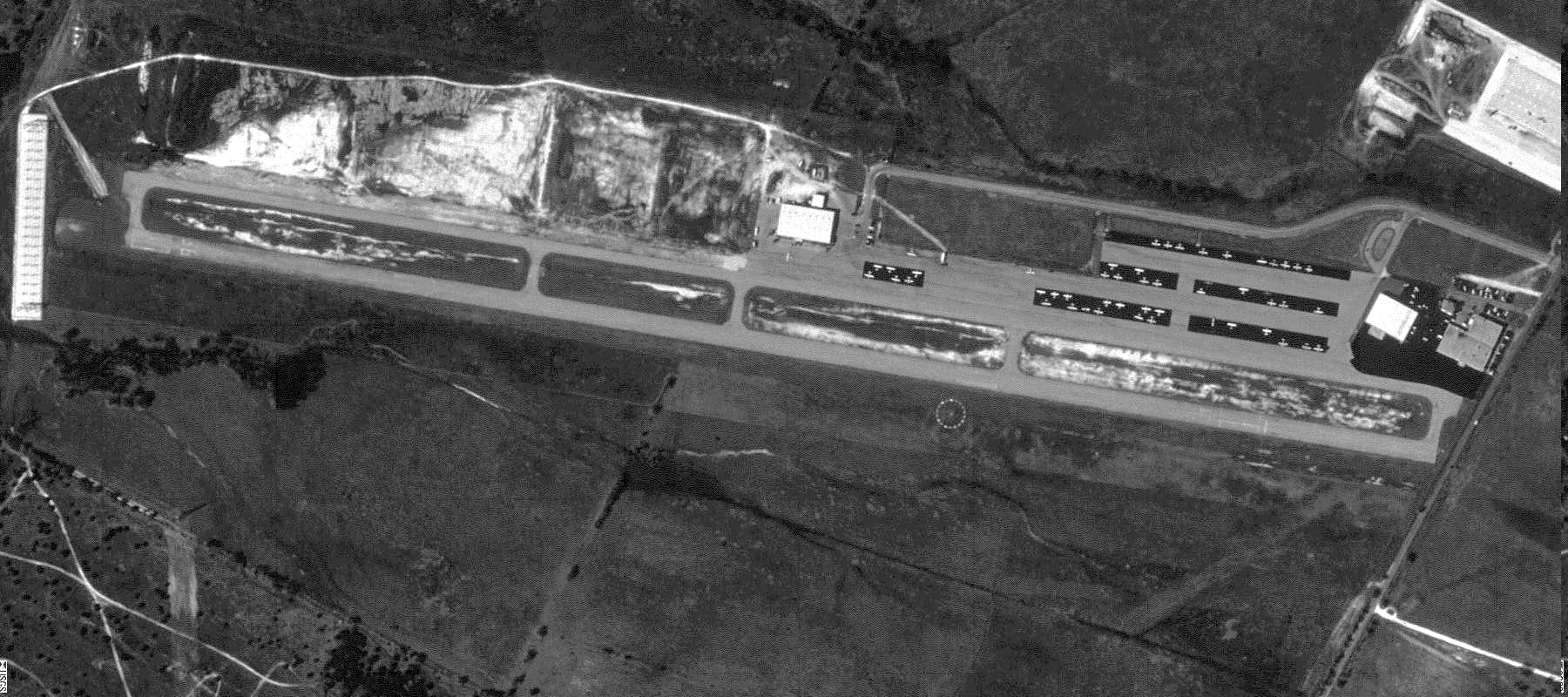 USGS digital orthophoto of Austin Executive Airpark (FAA: 3R3) in Austin, Texas, United States.The image has been rotated clockwise 90 degrees (North direction is to the right). N